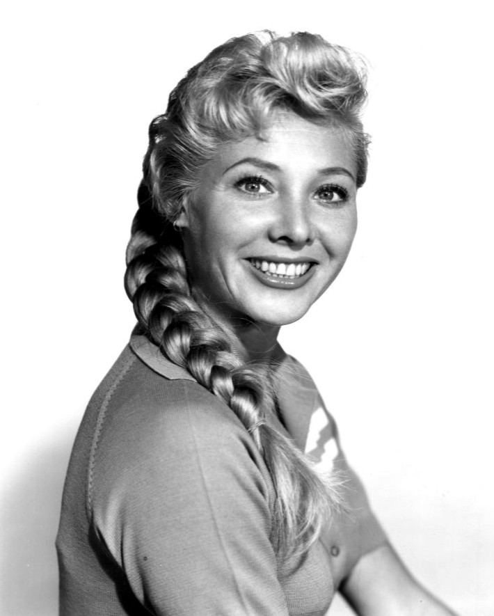 Publicity photo of actress Georgine Darcy who played the secretary, Gypsy, in the television program Harrigan and Son.